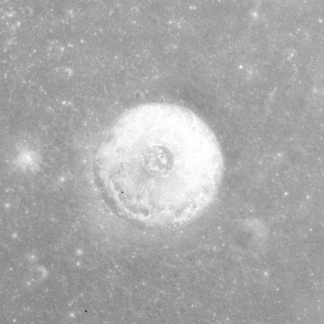 Taruntius H crater (west of Taruntius), on the moon.